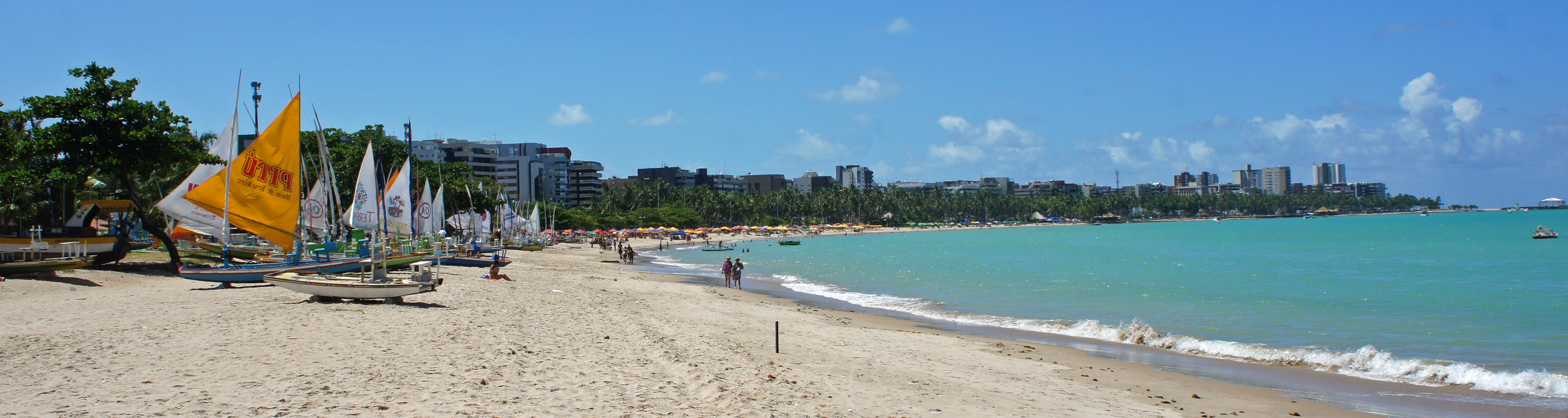 Pajuçara Beach, Maceió, Alagoas, Brazil